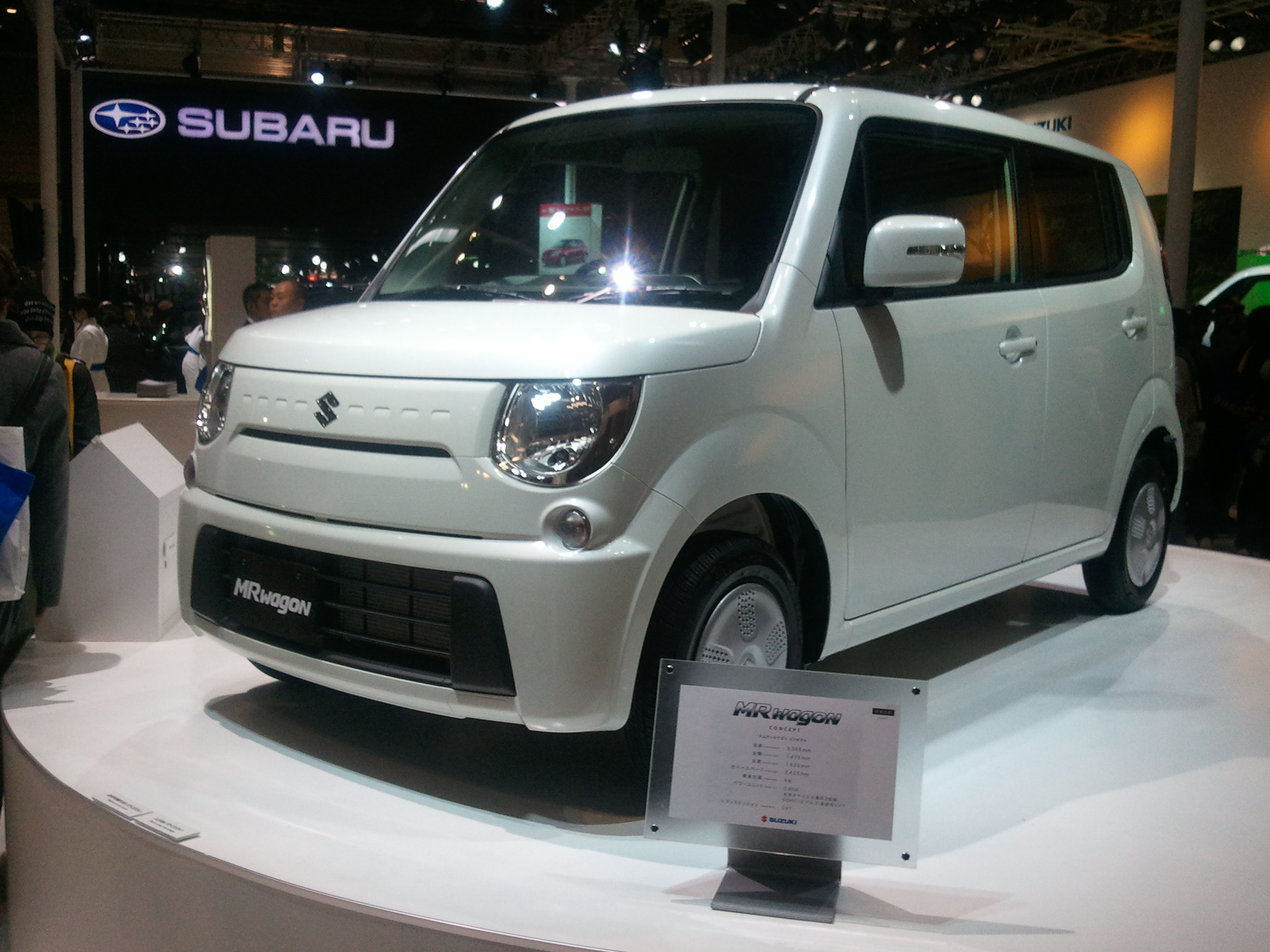 Suzuki MR Wagon concept photographed at the Tokyo Auto Salon 2011.